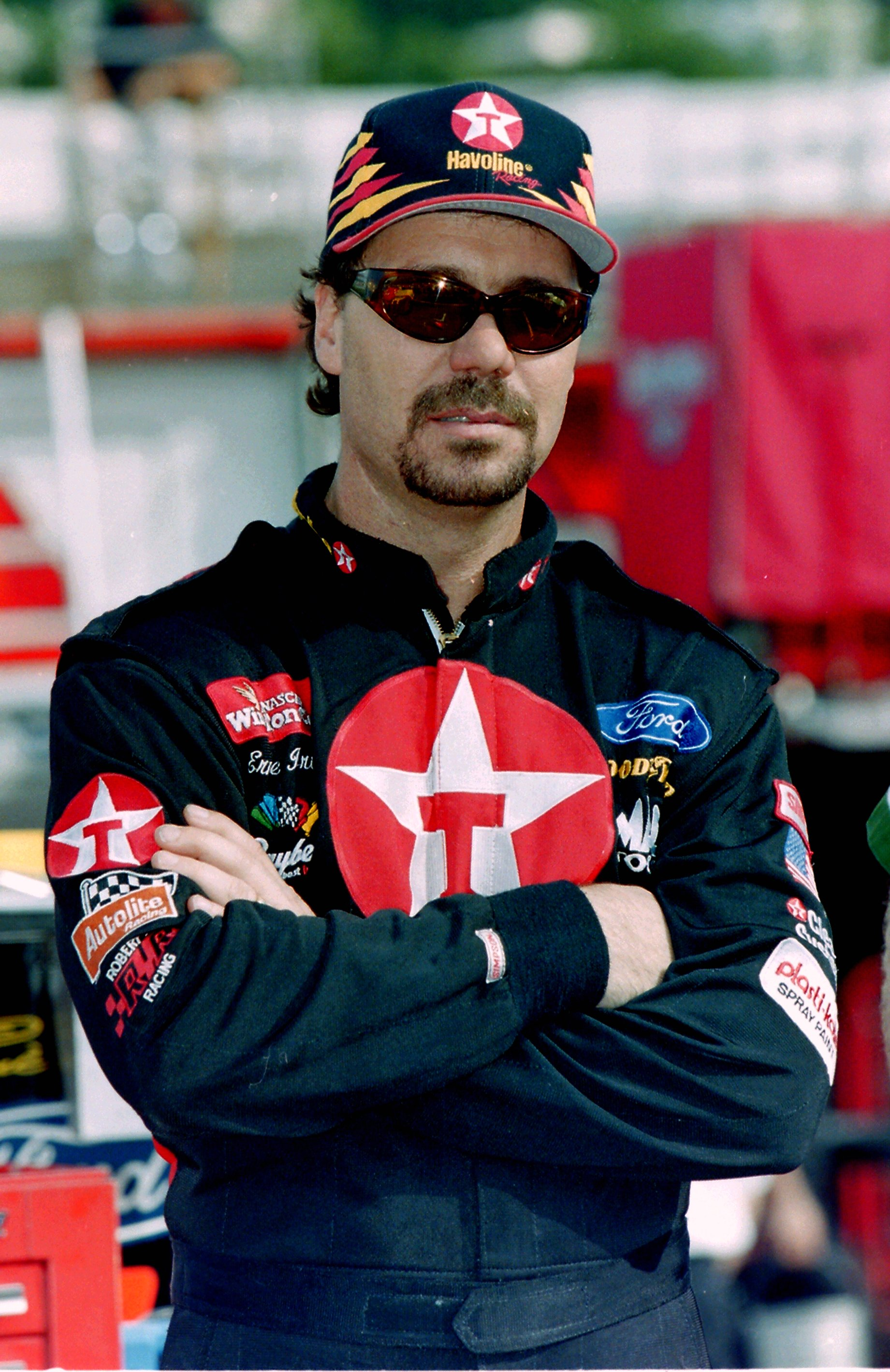 NASCAR driver Ernie Irvan in 1997.